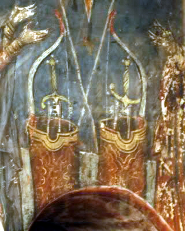 Bow used by the Moldavian forces during the reign of Stefan cel Mare - fresco from the Mănăstirea Humor